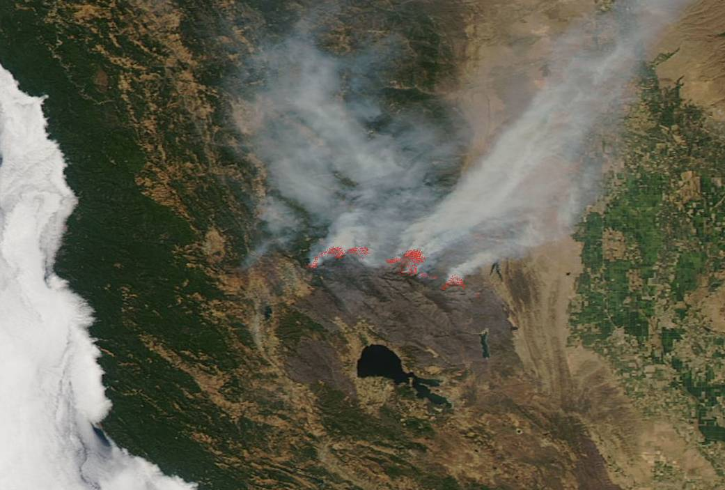 Satellite image of the Mendocino Complex Fire in California entering its 19th day and still growing in size, with the burned lands showing in dark red-brown colors below the contrasting smoke and untouched lands in this NASA Earth-observing satellite image. The burn area to the south is the smaller River Fire, while the active, larger burn area to the north is the Ranch Fire, which is California's single largest recorded wildfire.